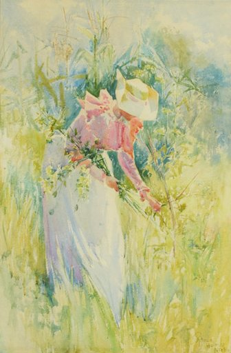 Picking Wildflowers by Rhoda Holmes Nicholls, c. 1900, watercolor on paper, High Museum of Art